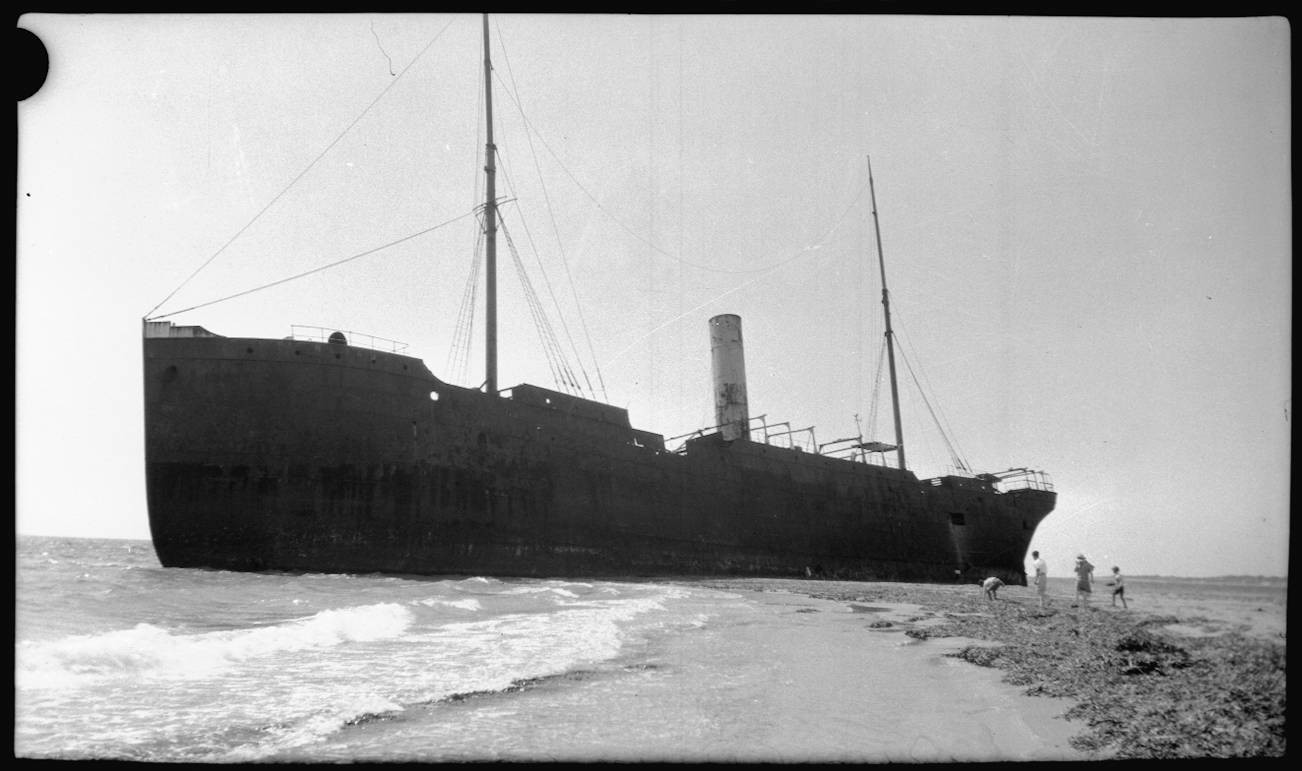 State Shipping Service of Western Australia steamship Kwinana aground on Kwinana Beach, near Rockingham, Western Australia